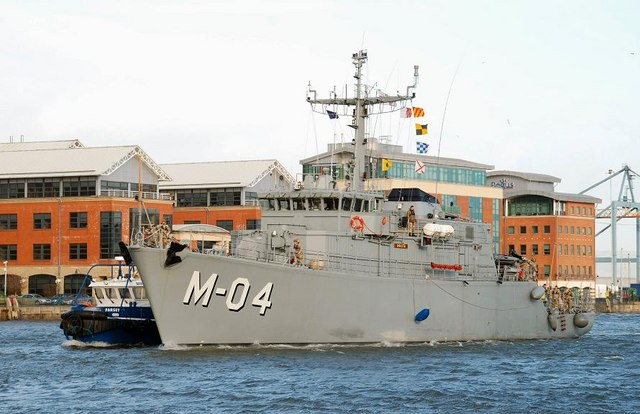 Naval visit, Belfast (3). See 667217. The third vessel to arrive was the Latvian minehunter LVS "Imanta" accompanied by the Belfast tug "Farset". Continue to 667228.